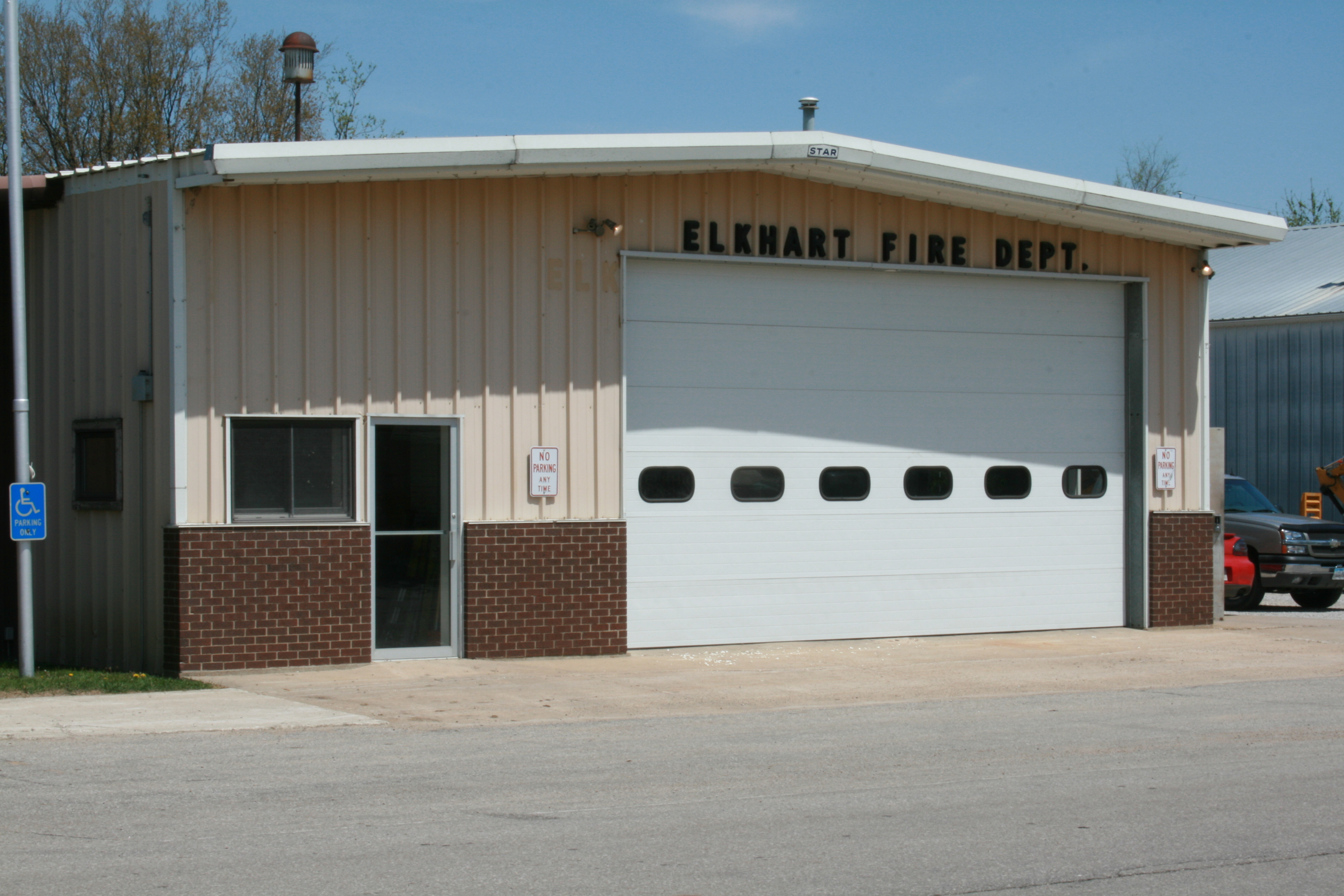 Fire Station located in Elkhart, Iowa